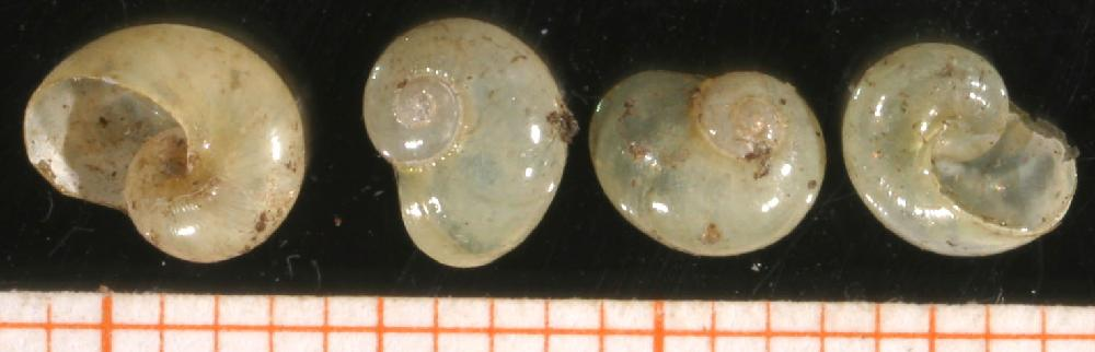 Vitrina pellucida. Scale is in mm. Locality: Switzerland, San Bernardino pass. Date: 16 May 1971.